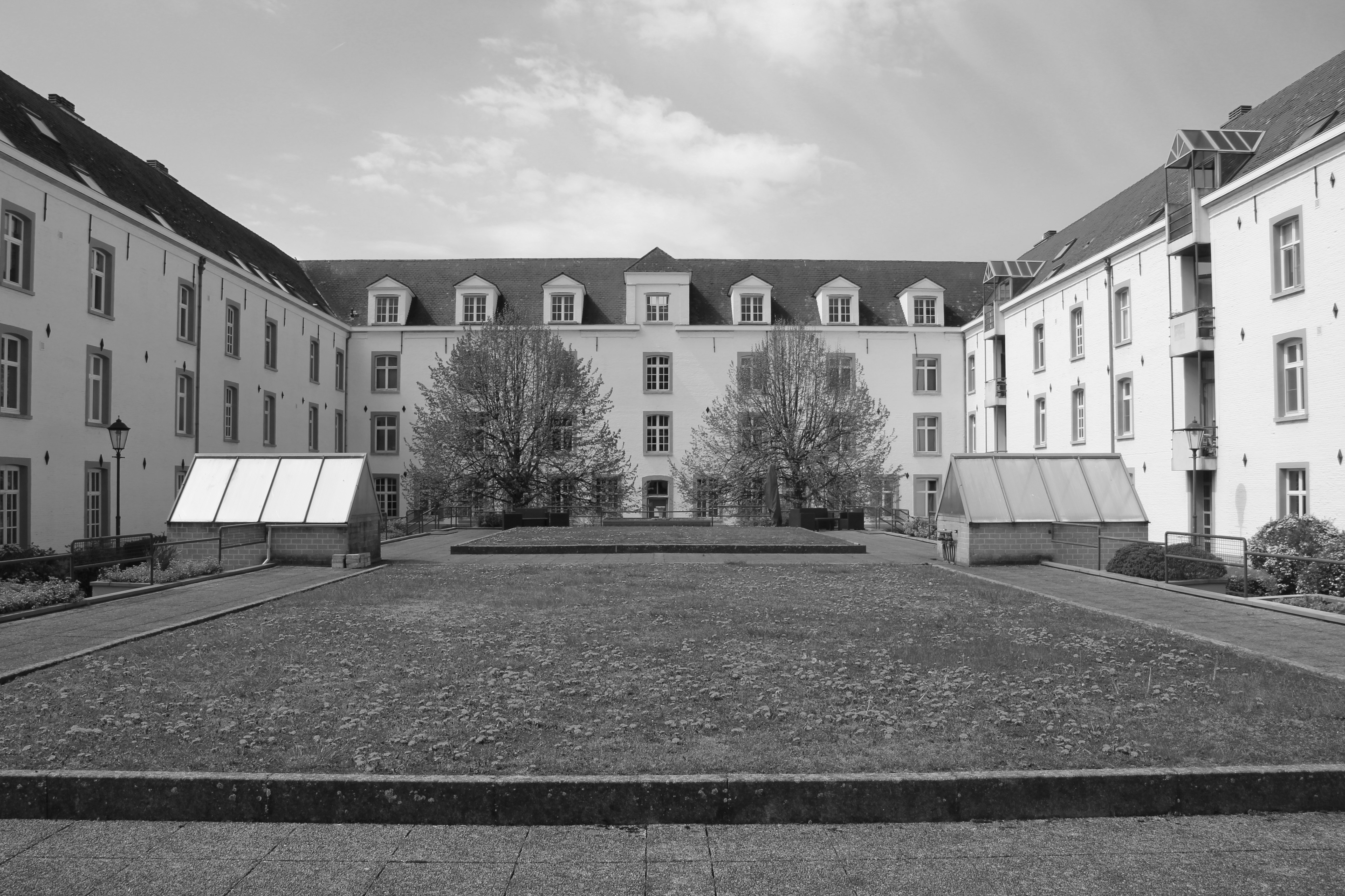 This is a file created at the museum: Kazerne Dossin Memorial in Mechelen